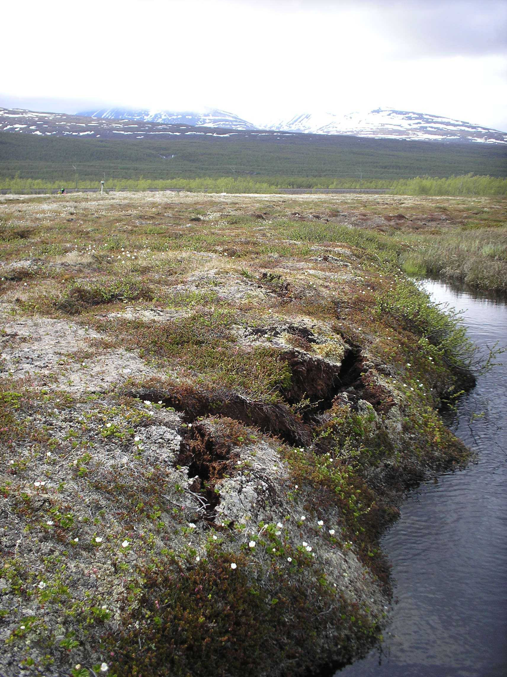 Permafrost peatbog border. Storflaket, Abisko, Sweden.